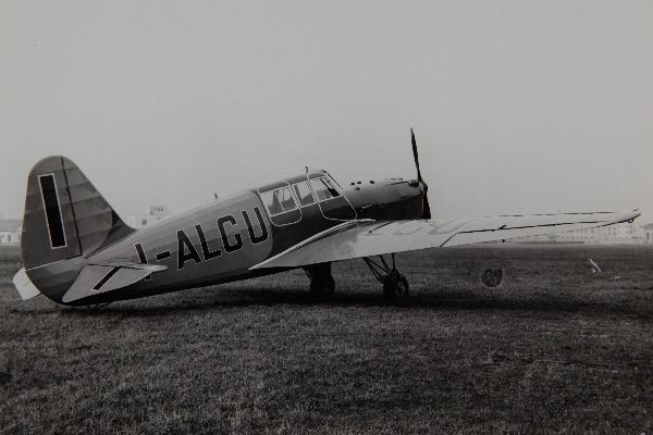 Caproni Ca.166 sportsplane,I-ALGU, rebuilt from the second PS.1 (I-MELO).